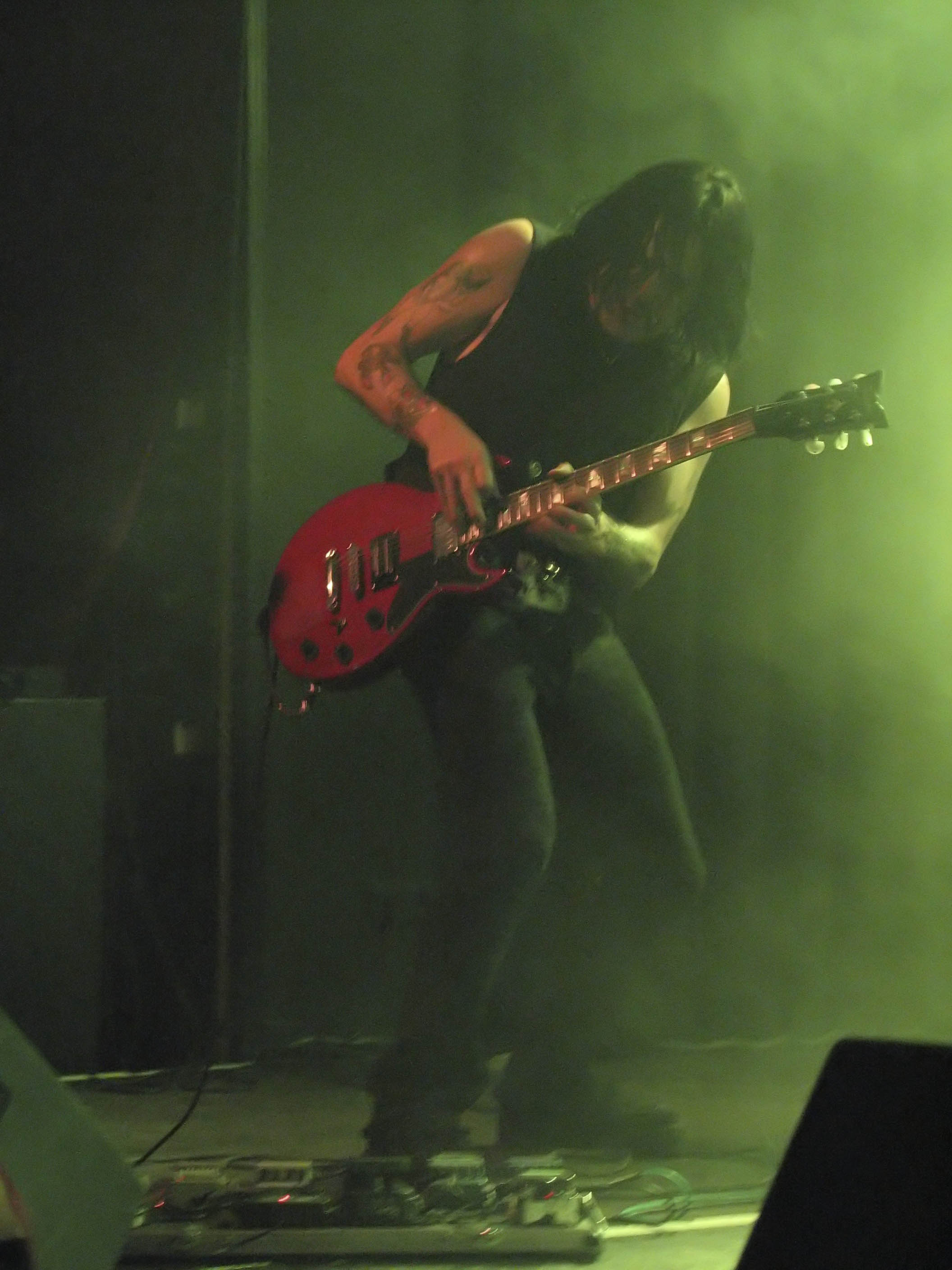 The guitarist Tommy Victor performing live with Prong.